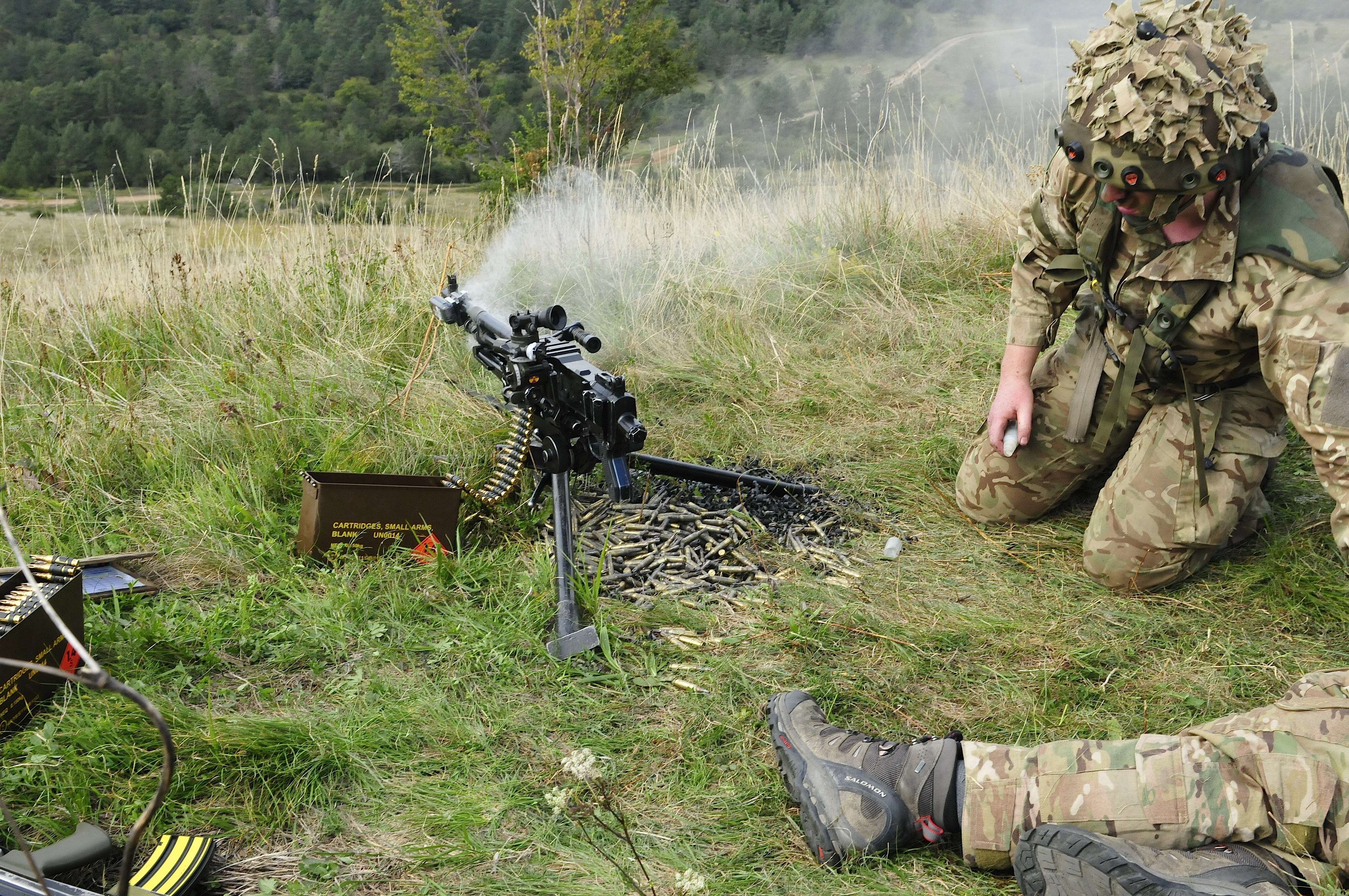 POSTOJNA, Slovenian - Slovenia was the host to Albanian and British Soldiers for situational training exercise drills as part of the multi-national exercise Immediate Response 15 near Postojna, Slovenia September 13, 2015. Immediate Response 15 is a multinational, brigade-level exercise utilizing computer-assisted simulations and field training exercises spanning two countries. The exercises and simulations are built upon a scenario designed to enhance regional stability, strengthen partner capacity and improve interoperability between partner nations. Immediate Response is an annual exercise, and the fifth iteration is scheduled to run Sept. 9-22, 2015. (U.S. Army photo by Sgt. 1st Class Walter E. van Ochten)